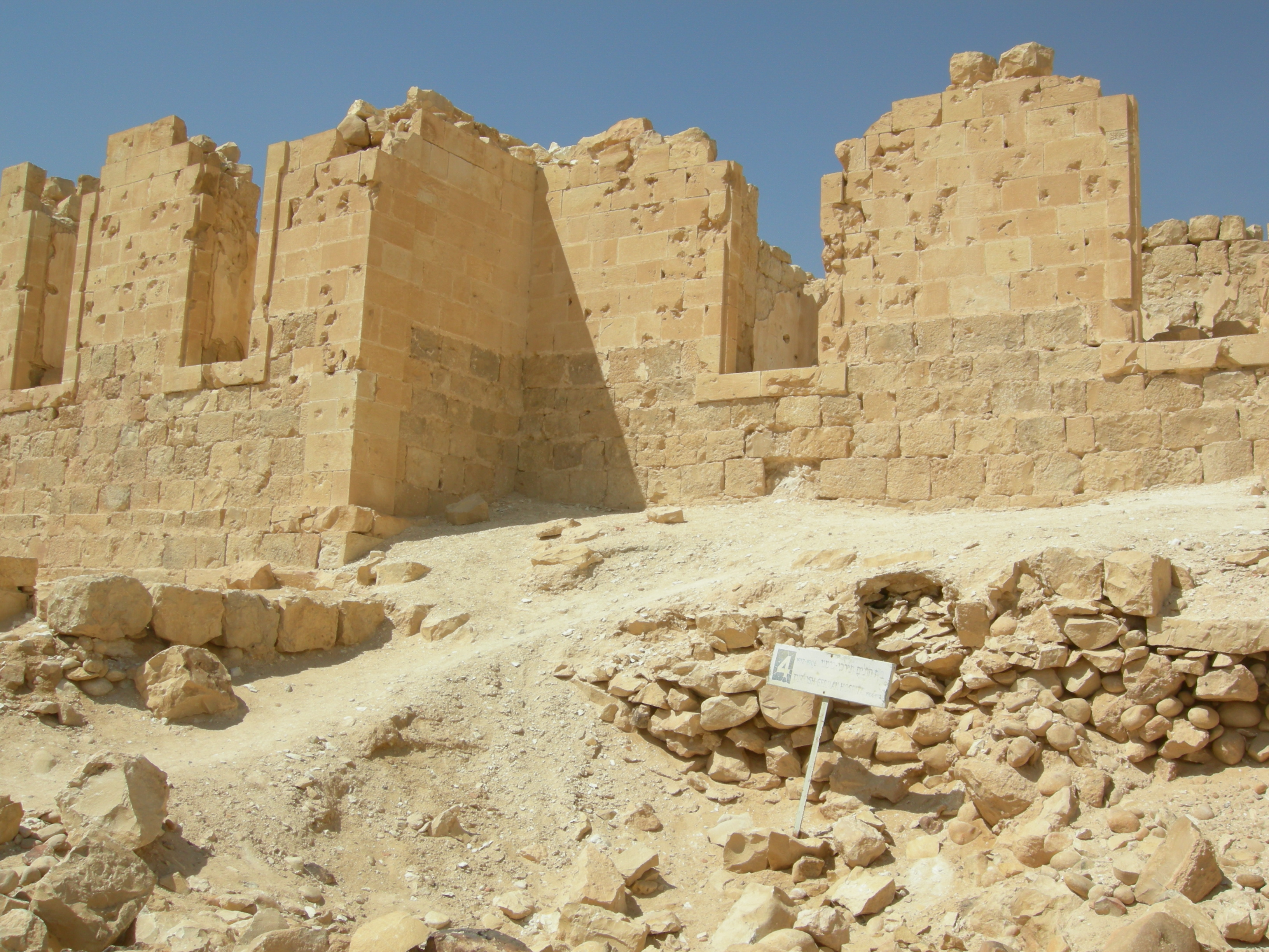 German-Turkish hospital (1906-1917) on ruins of Byzantine fort at Nizana archaeological site, Israel.